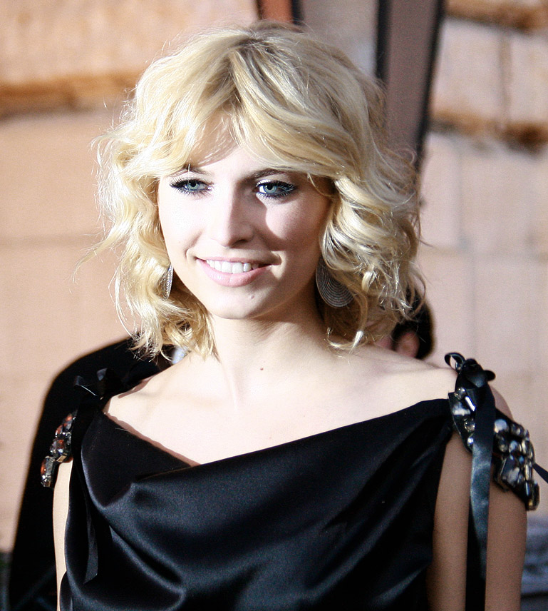 Lena Gercke at the Romy TV awards (Hofburg Imperial Palace in Vienna)